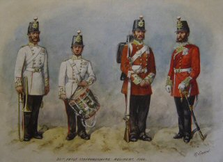 38th regiment uniforms 1856